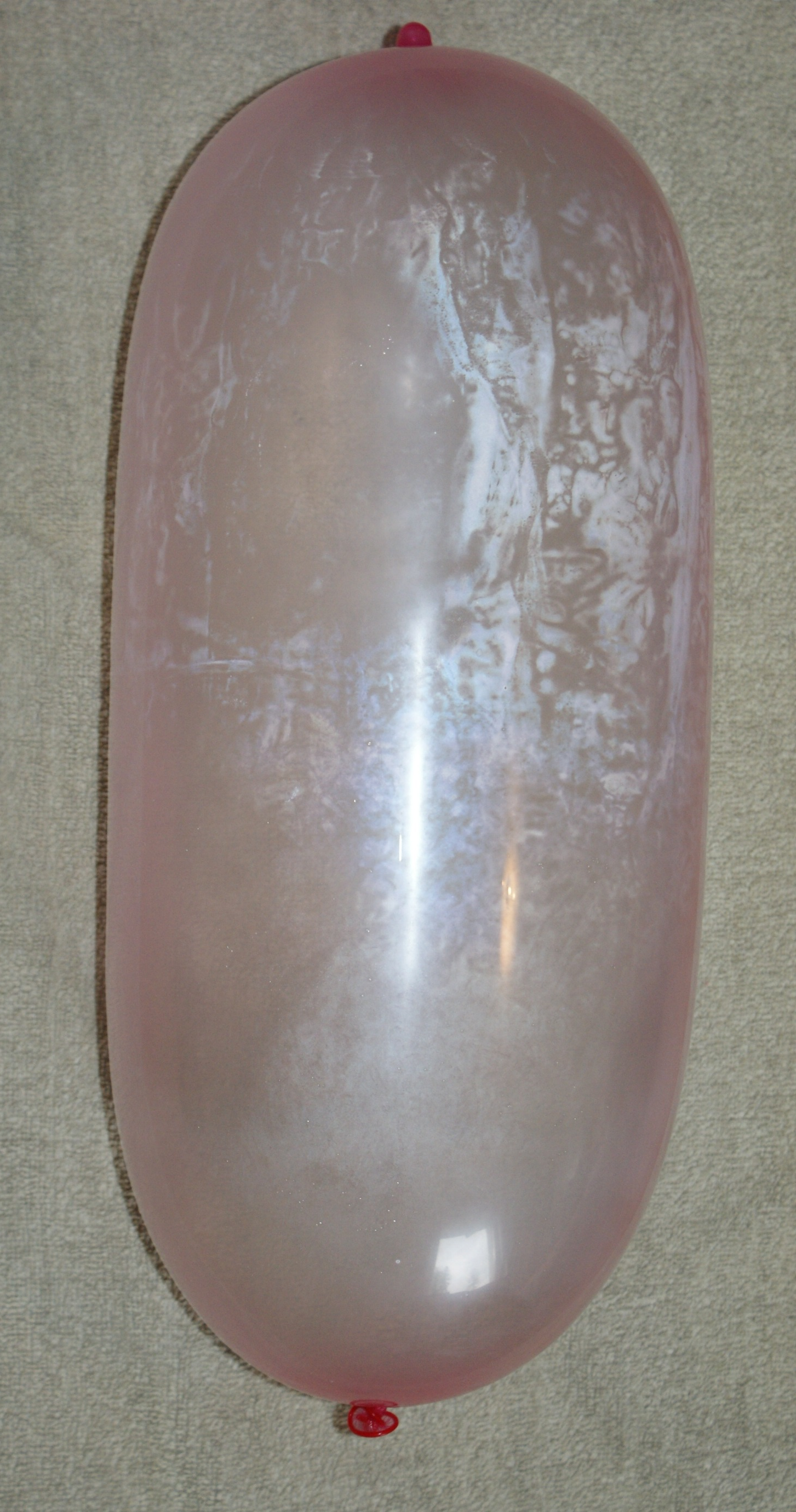 Inflated condom